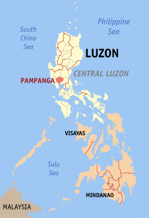 Map of the Philippines showing the location of Pampanga